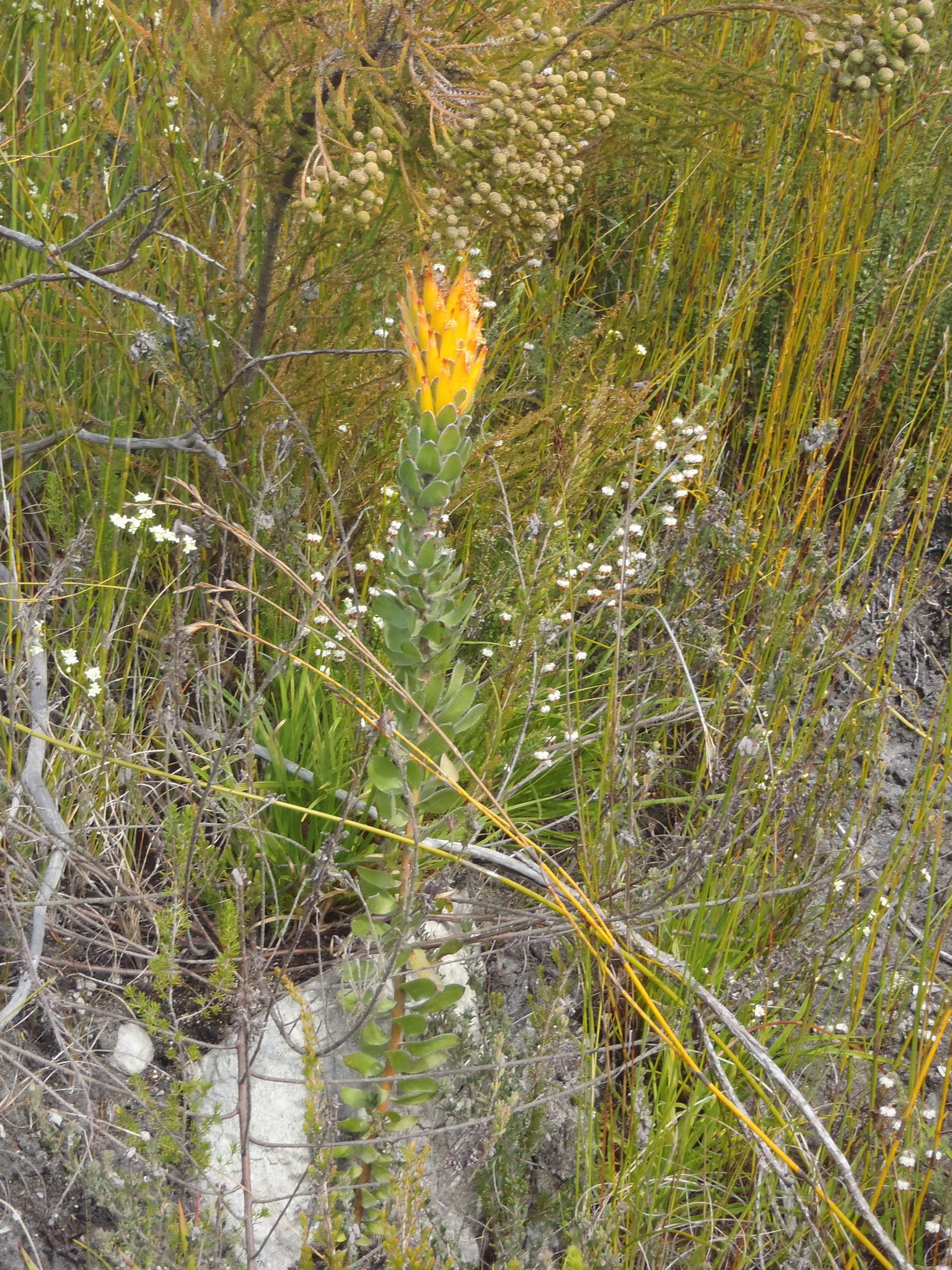 Three-flowered pagoda, Mimetes pauciflorus, in the surrounding vegetation, photographed by Nicola van Berkel, on 7 September 2012, at Spitskop, Prince Alfreds Mountain Pass, near Knysna, in the Outeniqua Mountains, Eden County, Western Cape province, South Africa